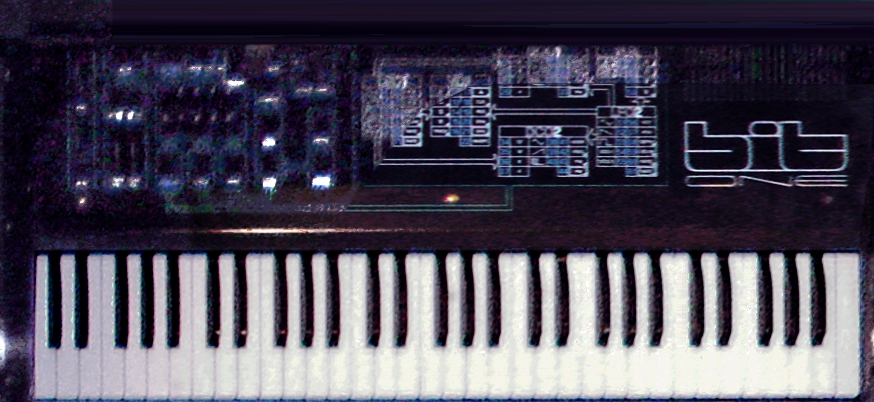 Crumar Bit One Shawn Rudiman's Studio, Pittsburgh, PA